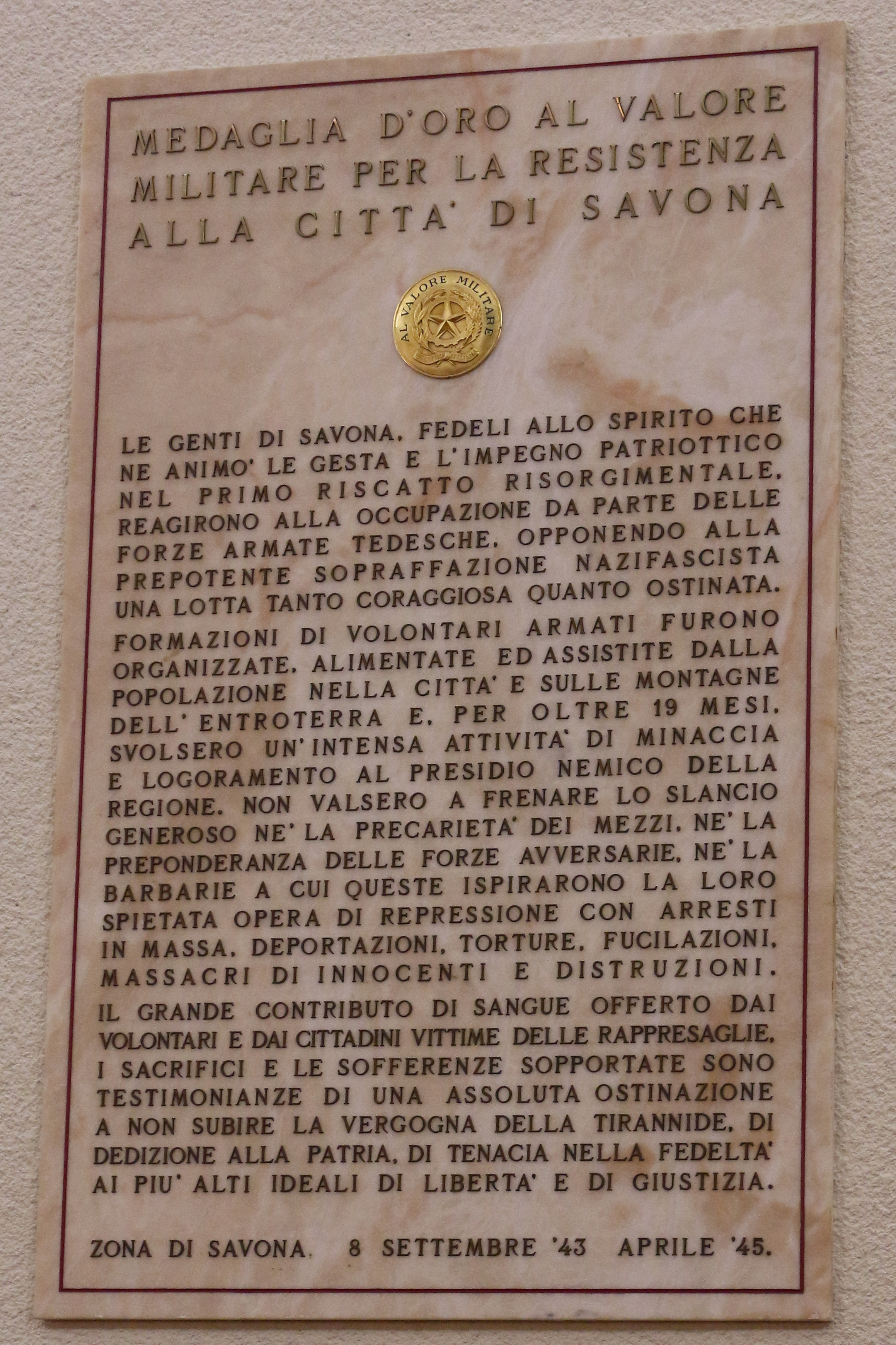 Italian Gold Medal of Military Valour for the city of Savona